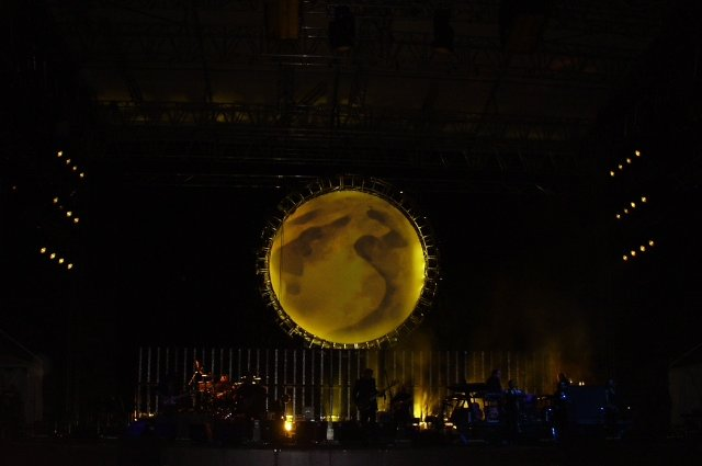 It's the concert of Roger Waters (Pink Floyd) at the arena of Verona (Italy)